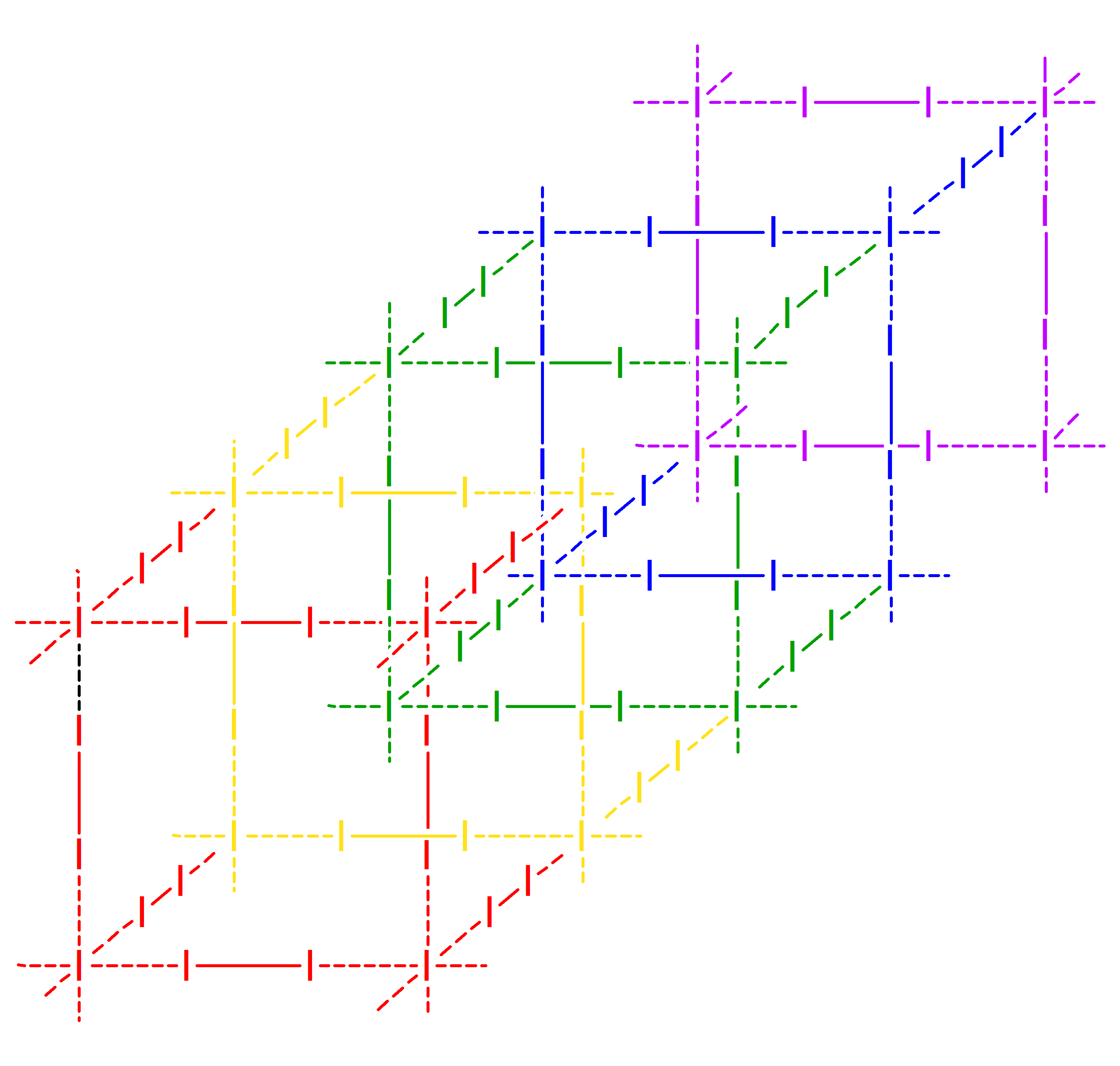 The primitive cubic lattice of iodide ions bridge by I2 molecules, present in (DMFc)4(I26)